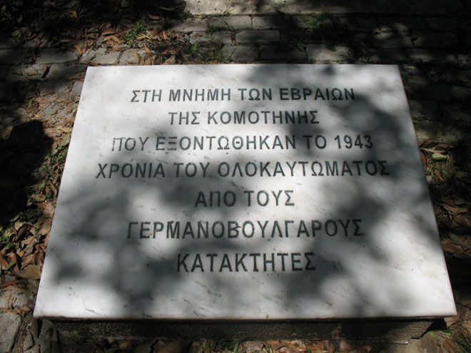 Komotini_holocaust_memorial. Credit: Courtesy of Arie Darzi to memorialize the Jewish community in Greece.